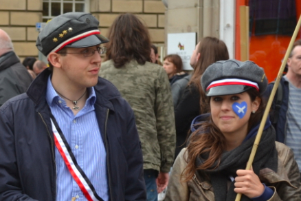 Members of the NSV (Nationalist Student Association, Flanders) in their traditional hat and ribbon.